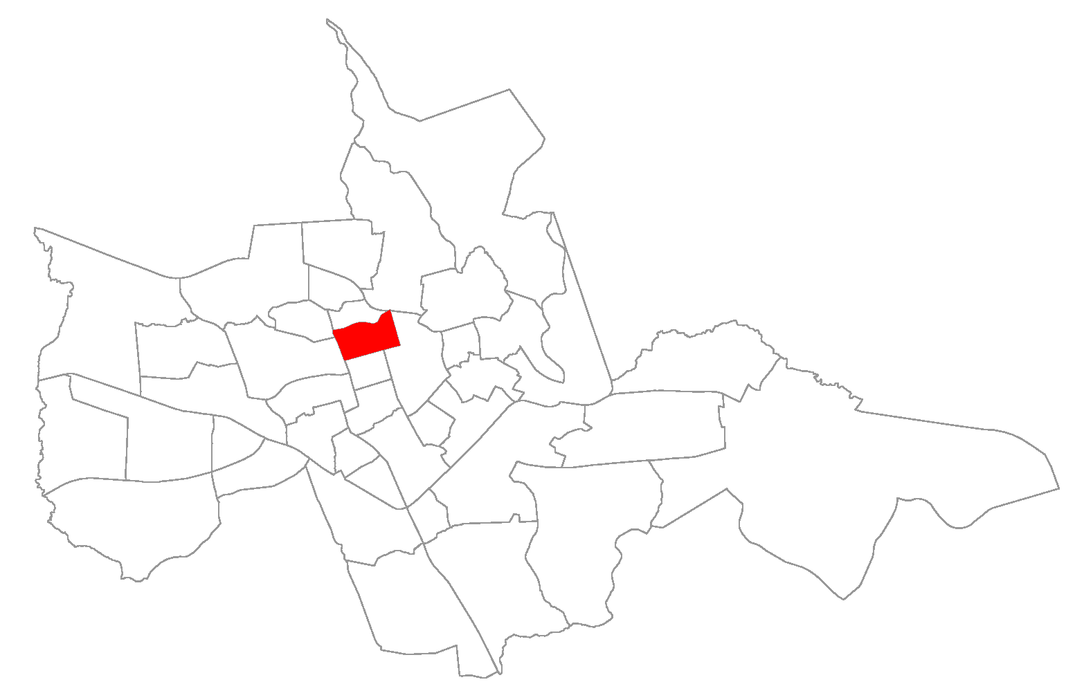 neighborhood/district of Santa Maria, Rio Grande do Sul